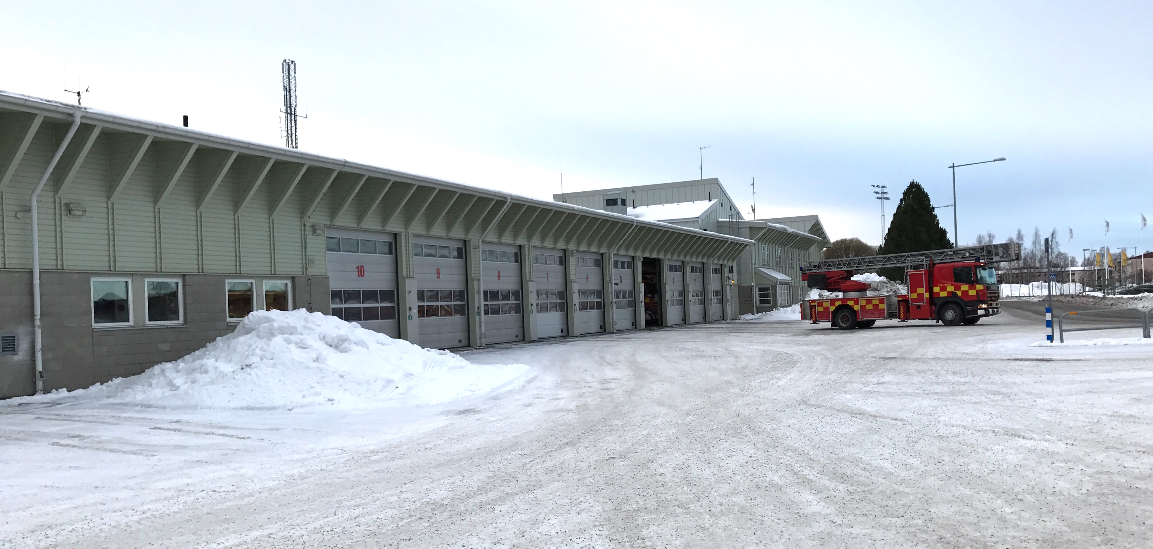 Umeå Fire Station.